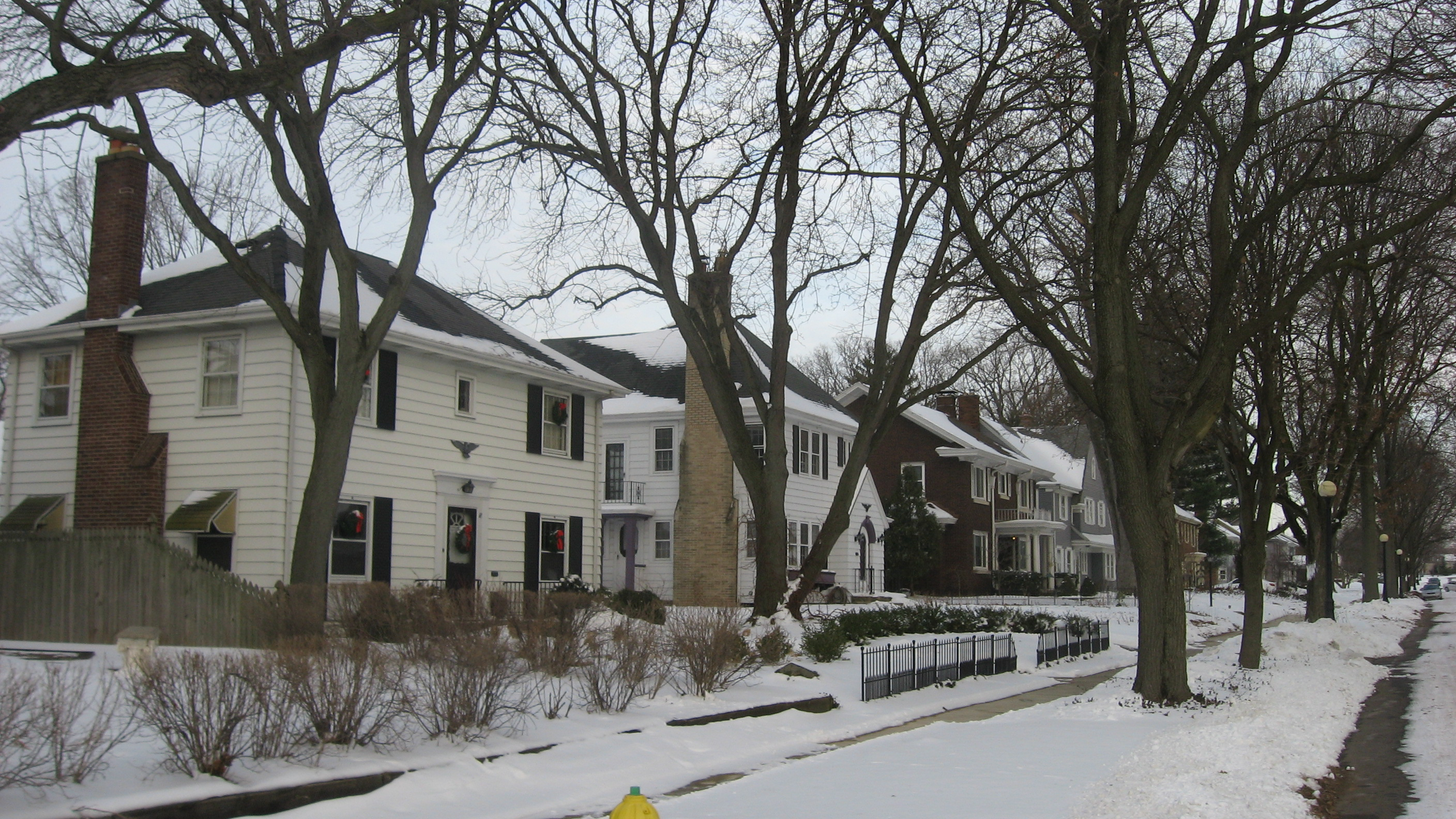 Houses on the northern side of the 1300 block of Foster Parkway in Fort Wayne, Indiana, United States. This neighborhood is part of the Foster Park Neighborhood Historic District, a historic district that is listed on the National Register of Historic Places.